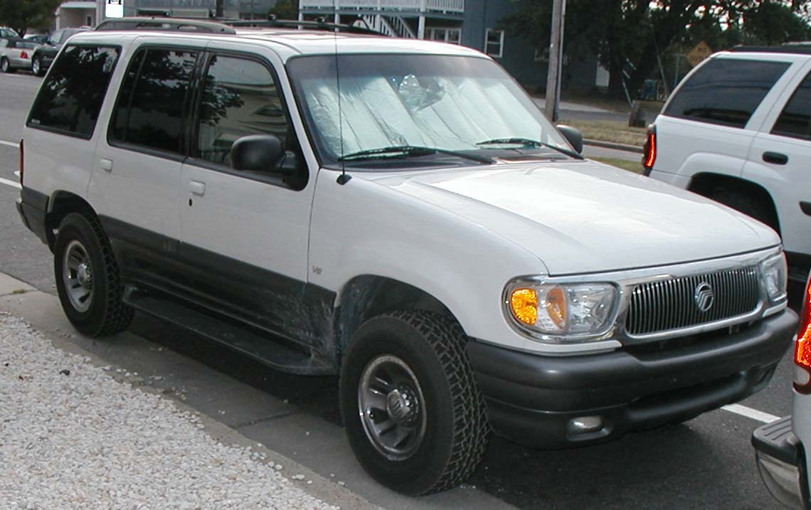 1997-2001 Mercury Mountaineer photographed in USA.